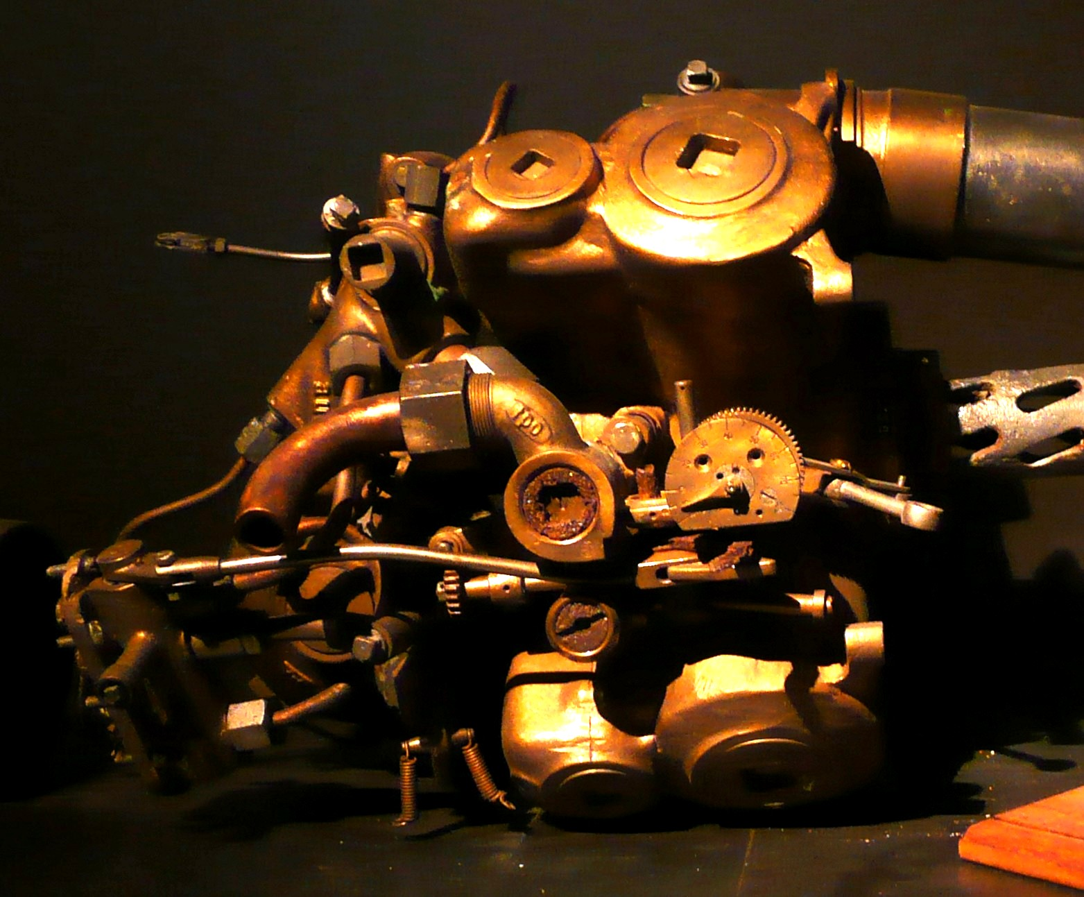 Engine of a german G7a torpedo. Exposed in International Maritime Museum Hamburg.